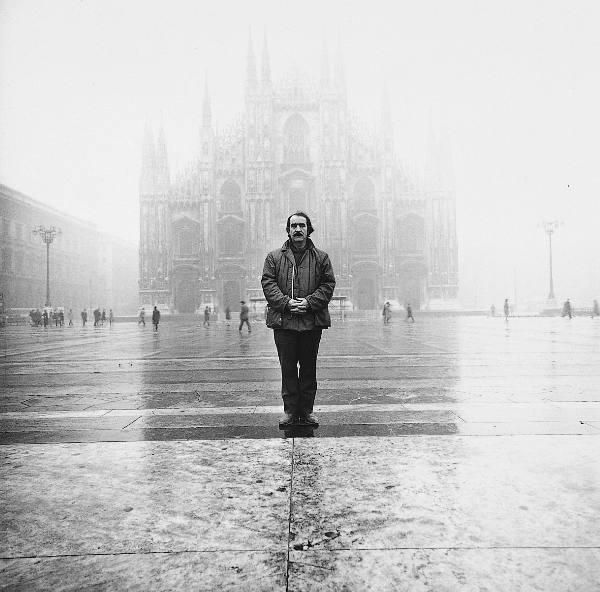 Jean Tinguely photographed by Lothar Wolleh, Milan, 1970